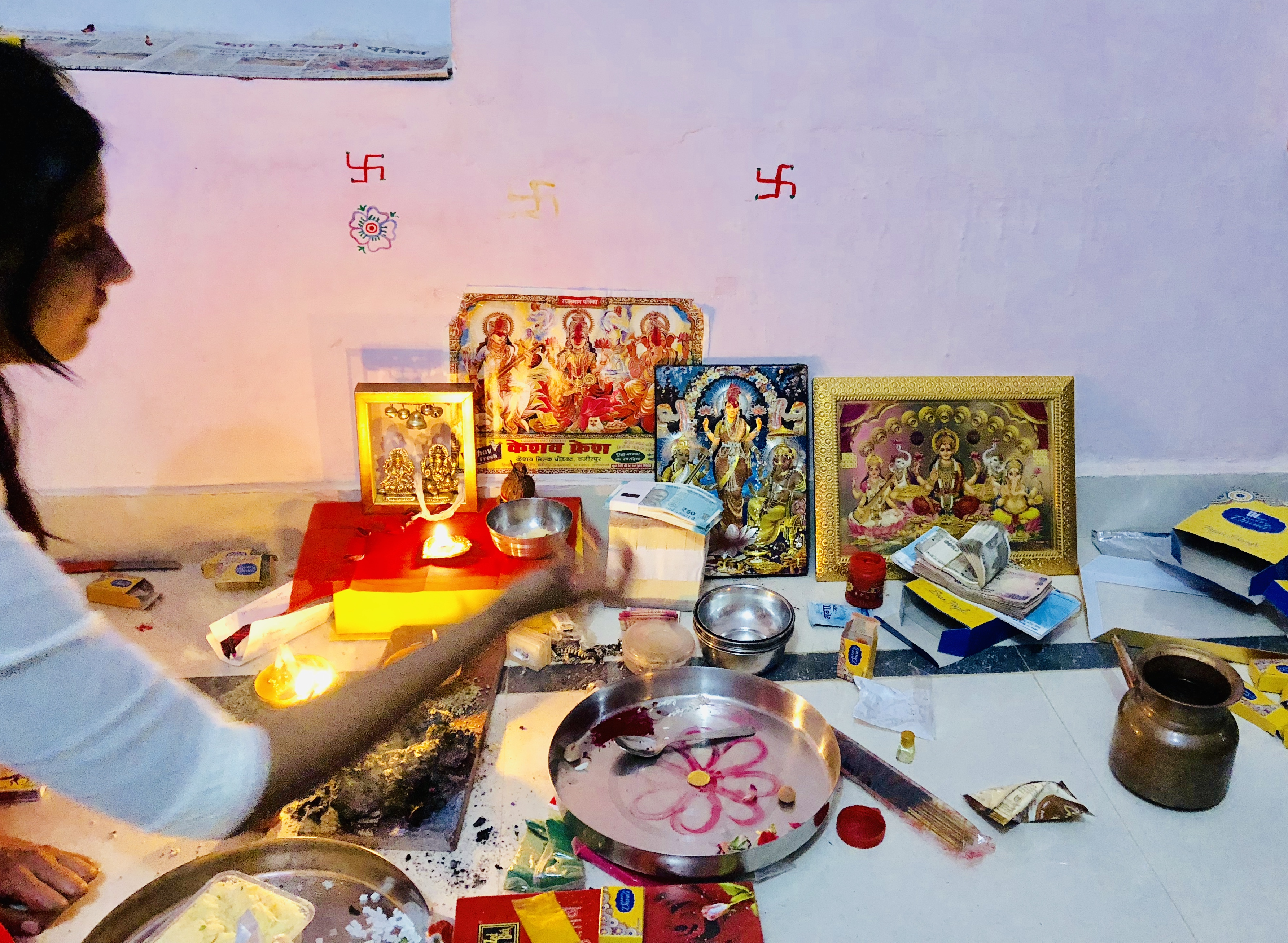 The Hindu girl worshiping Laxmi by lighting a lamp on Diwali, the biggest festival of India's Hindu religion. This photo was taken on 7 November 2018 at 7:56 PM in the evening. This photo has been shown to be worshiped on Diwali and on the day of Diwali, for preparing and worshiping for Lakshmi Puja, how many preparations are made for worship in India and the lamp is lit, it has been shown to it. Diwali is India's largest festival of Hinduism. And on the day of Diwali, all Hindu people worship Lakshmi in a religious way by preparing all the preparations. This photo has been taken in the country: India